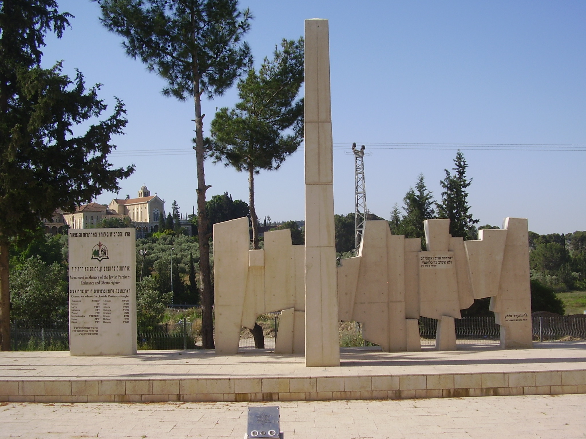 Jewish Patisans and Ghetto fighers memorial in Latrun, Israel - by Alexander Bogen, artist and partisan